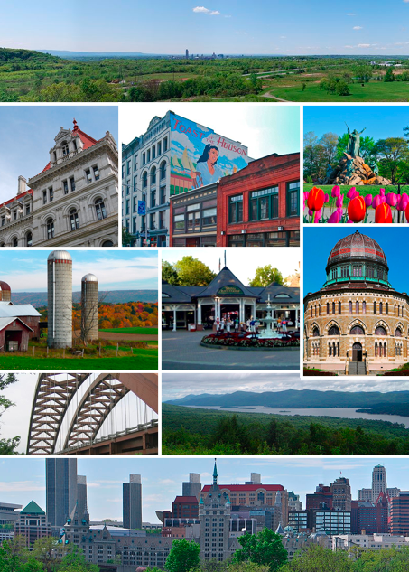 Image montage of New York's Capital District, a region surrounding the city of Albany